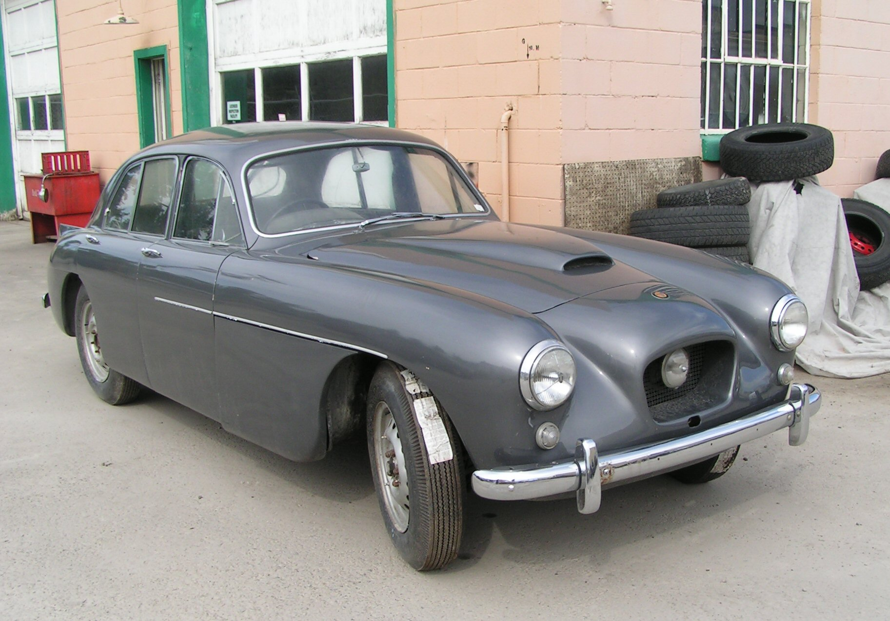 A rare car - 1 of 265 made and Bristol's only four door. Aluminum bodywork powered by a 2.0L inline six engine (based on a pre-war BMW design).